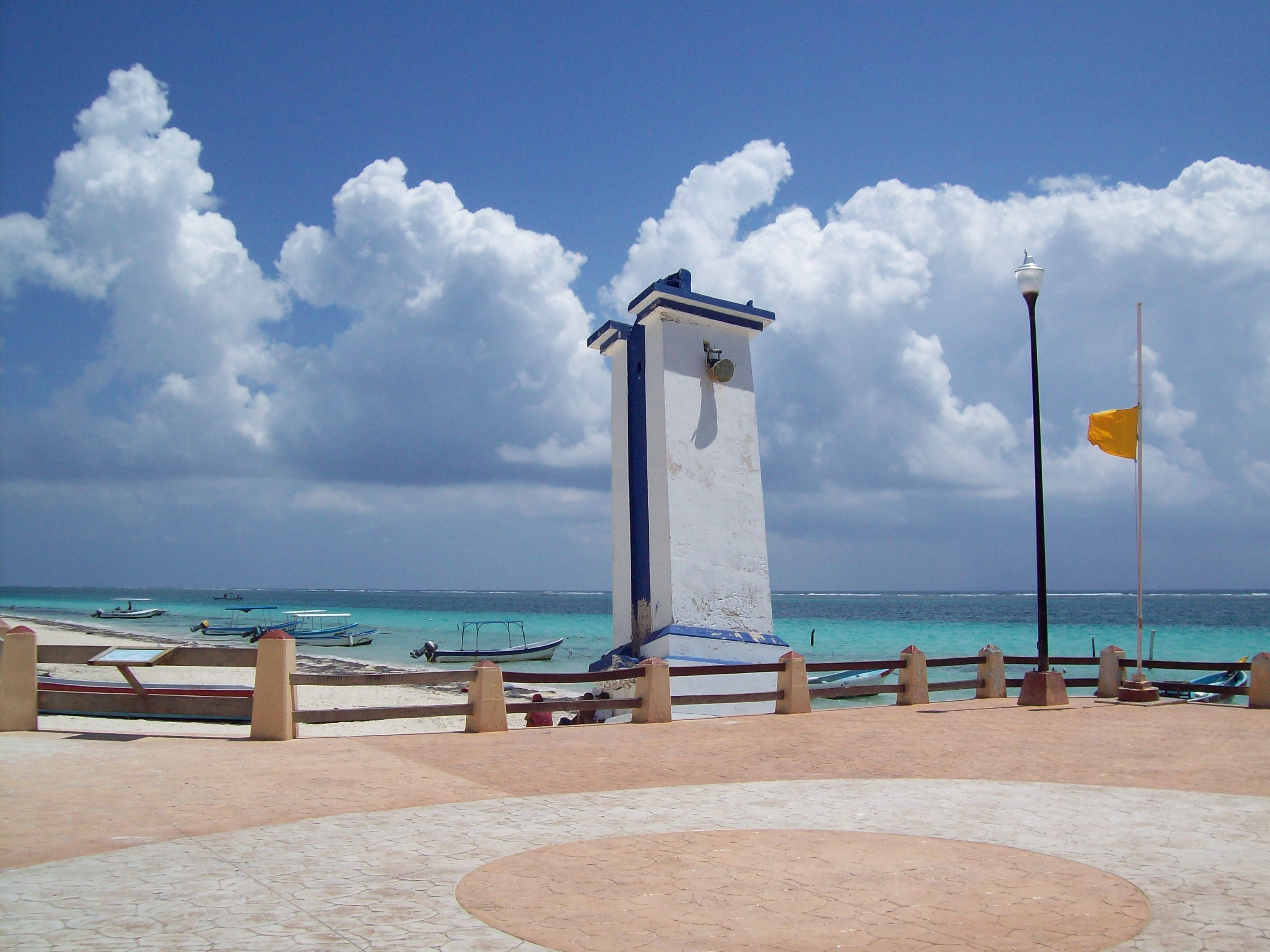 Lighthouse and reef at Puerto Morelos